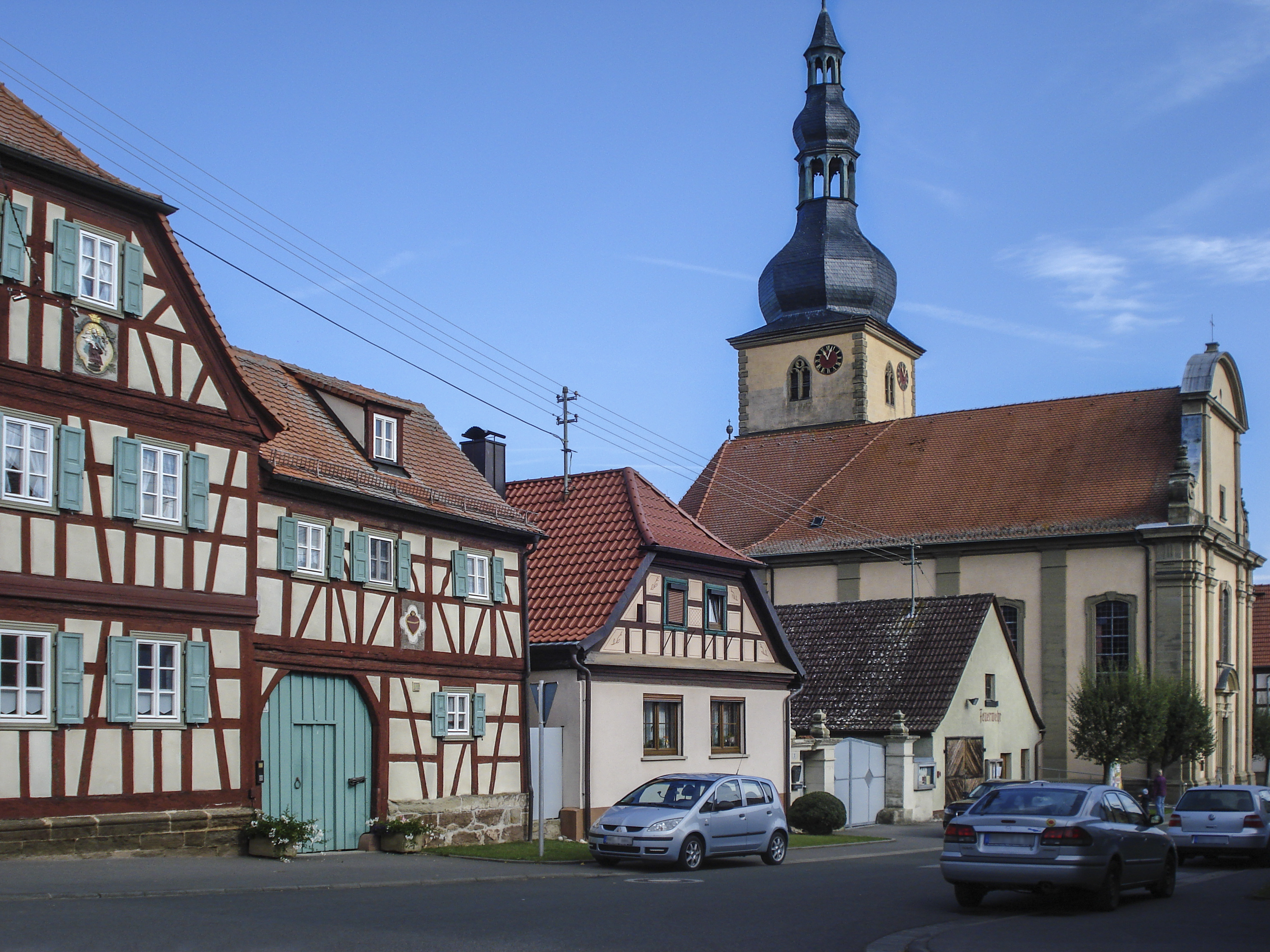 Hofheim i. Ufr., Ostheim